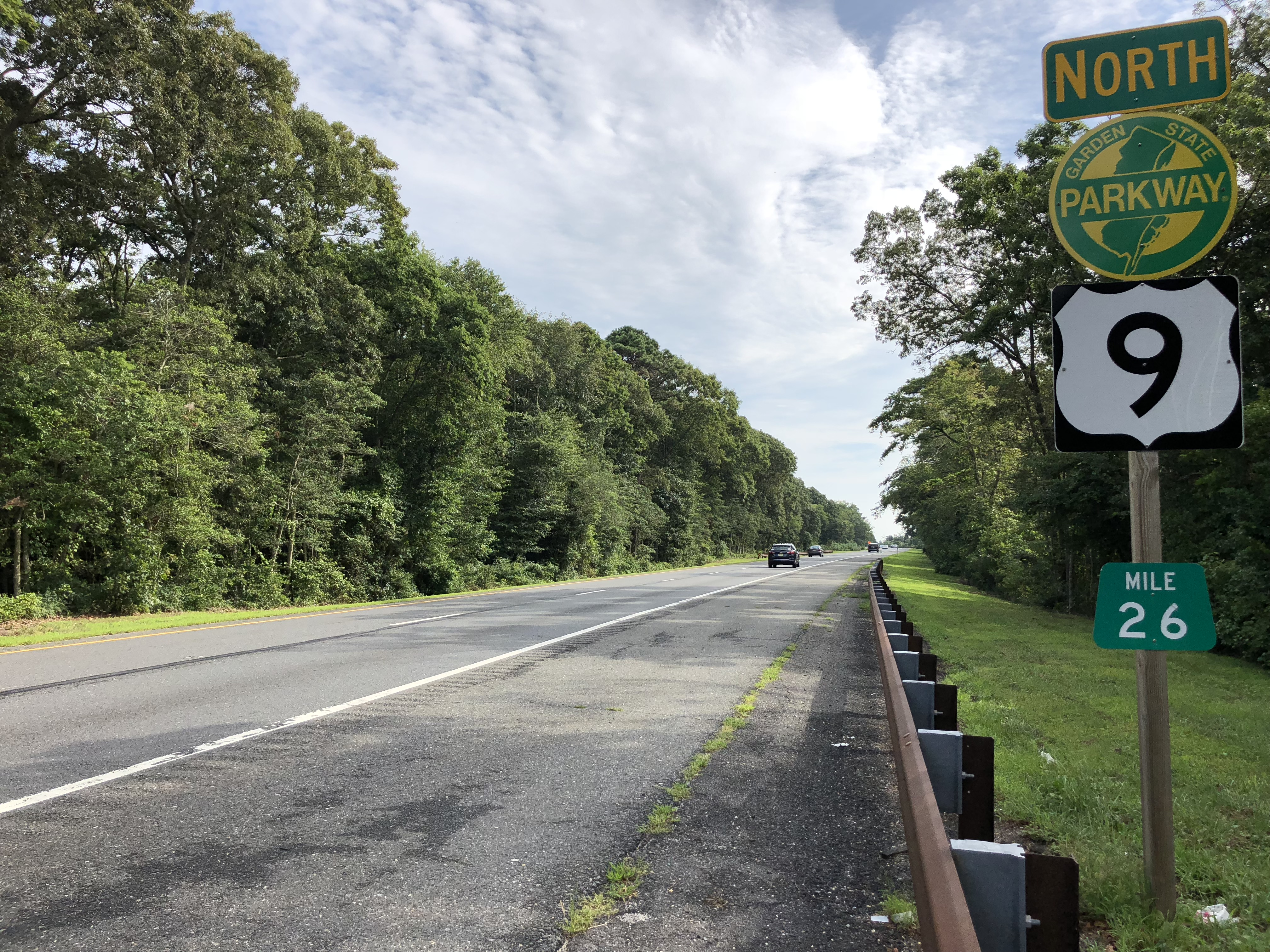 View north along U.S. Route 9 and New Jersey State Route 444 (Garden State Parkway) just north of Exit 25 in Upper Township, Cape May County, New Jersey